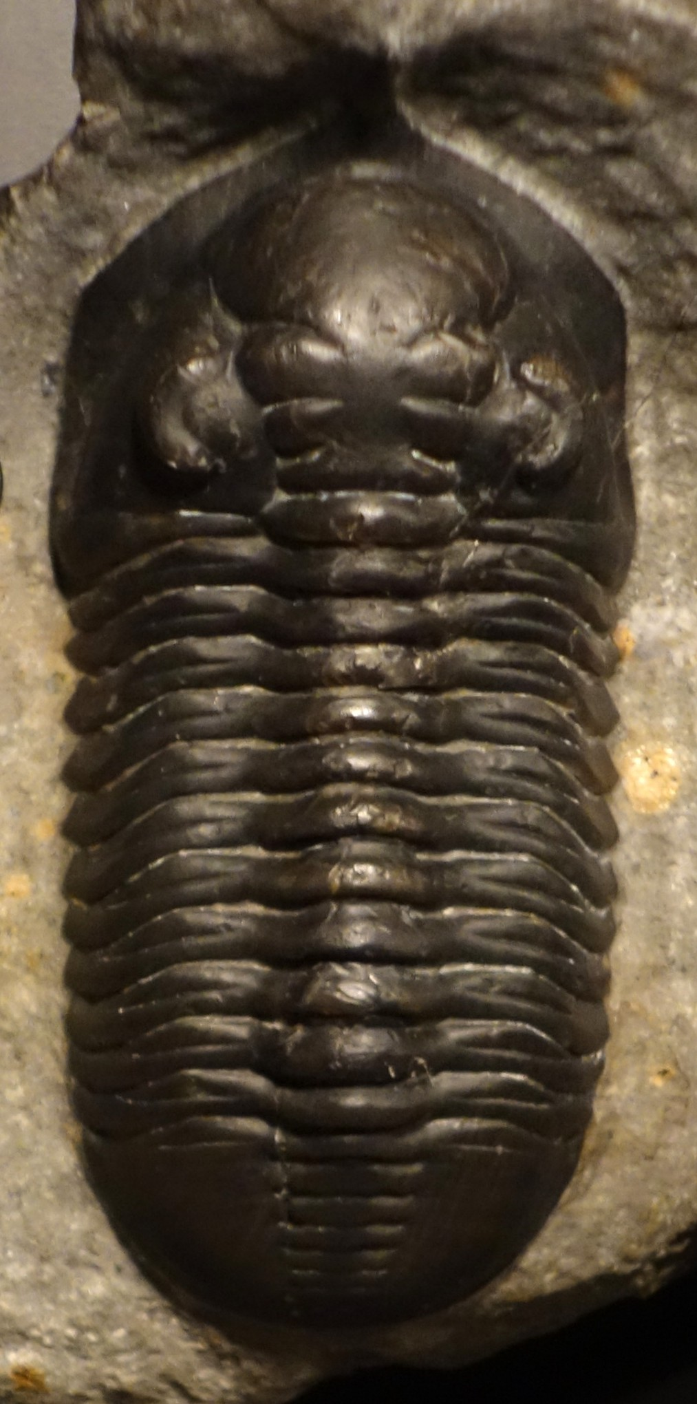 Exhibit in the National Museum of Nature and Science, Tokyo, Japan.